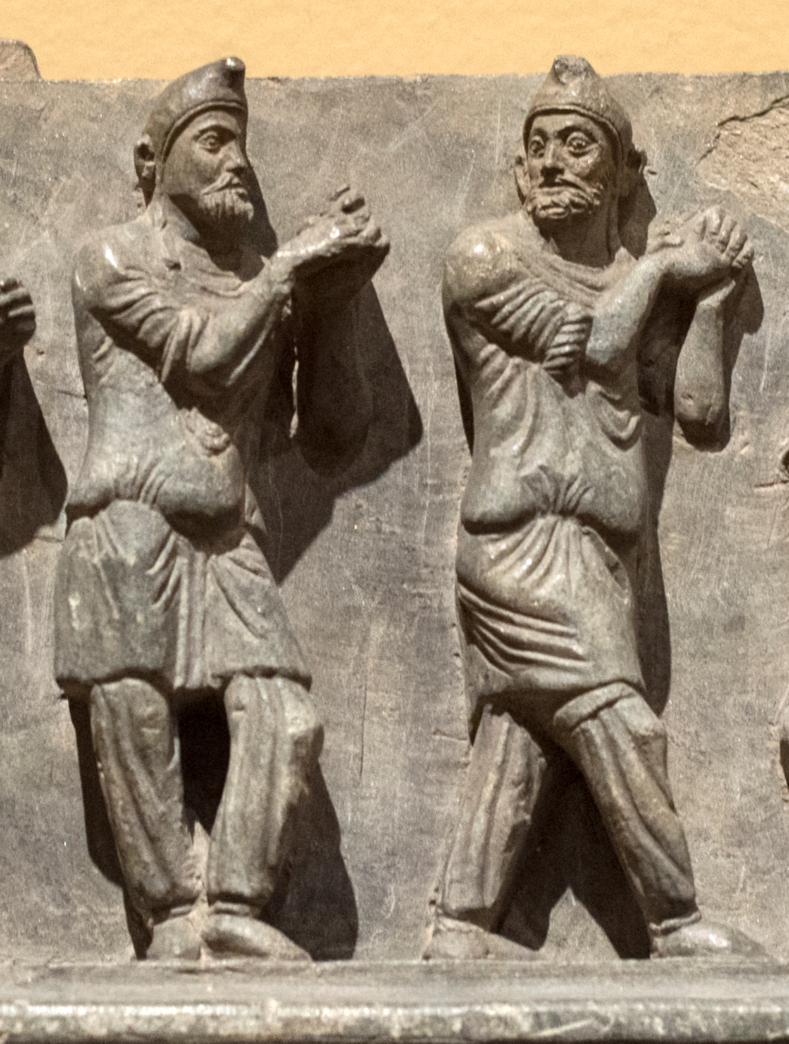 Buner reliefs Scythian bacchanalian dancers